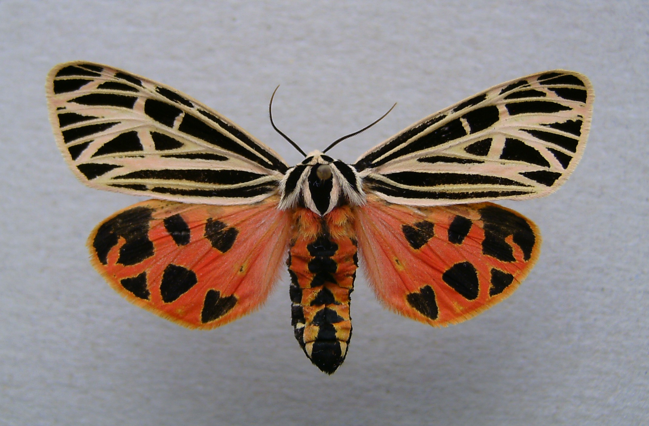 Grammia virgo,Virginia